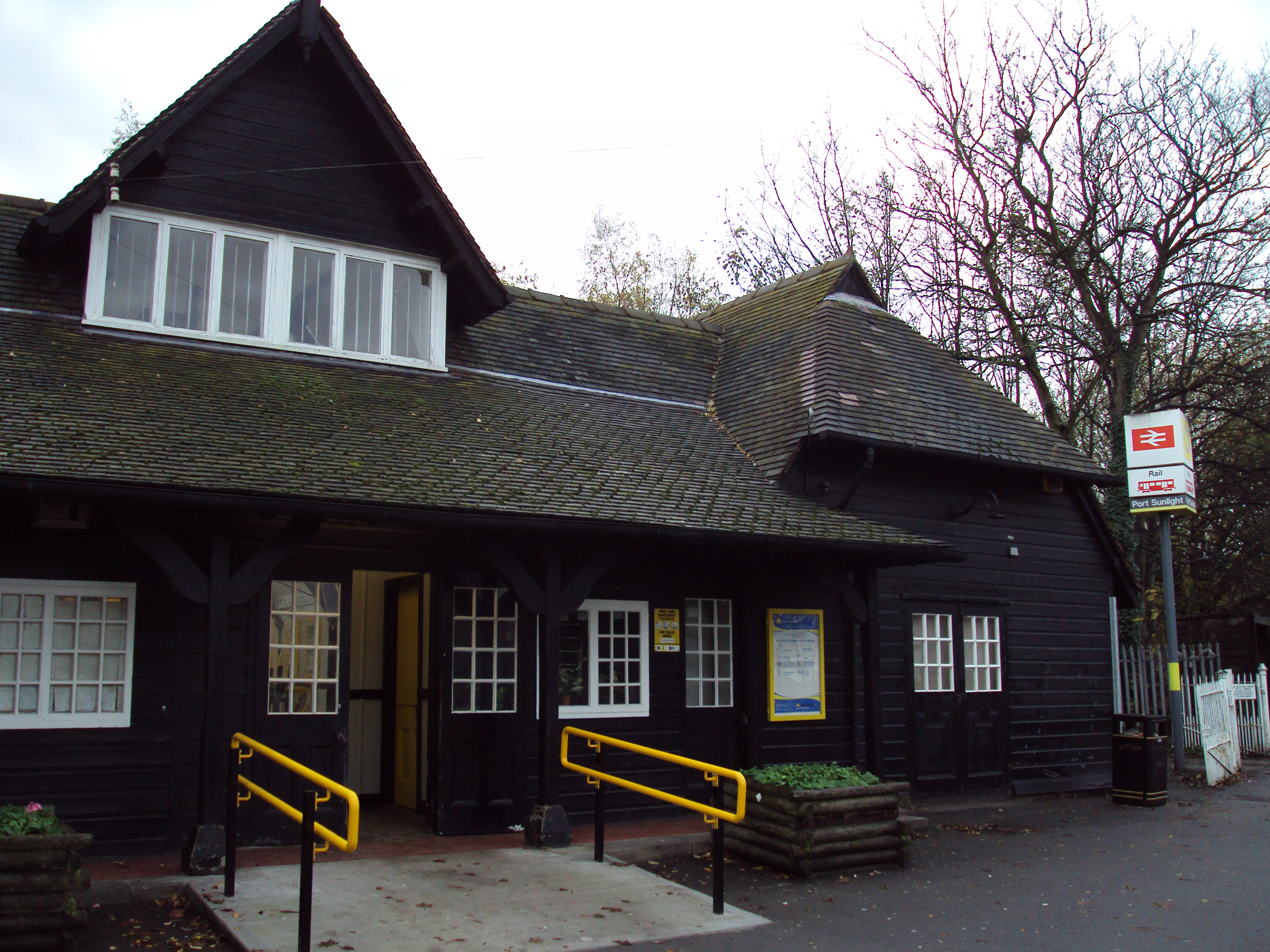 Port Sunlight railway station building, Wirral, Merseyside, England.